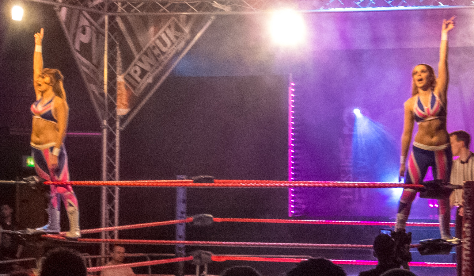 Professional wrestlers Holly and Hannah Blossom at IPW:UK's Revolution show in April 2012. Cropped from original.